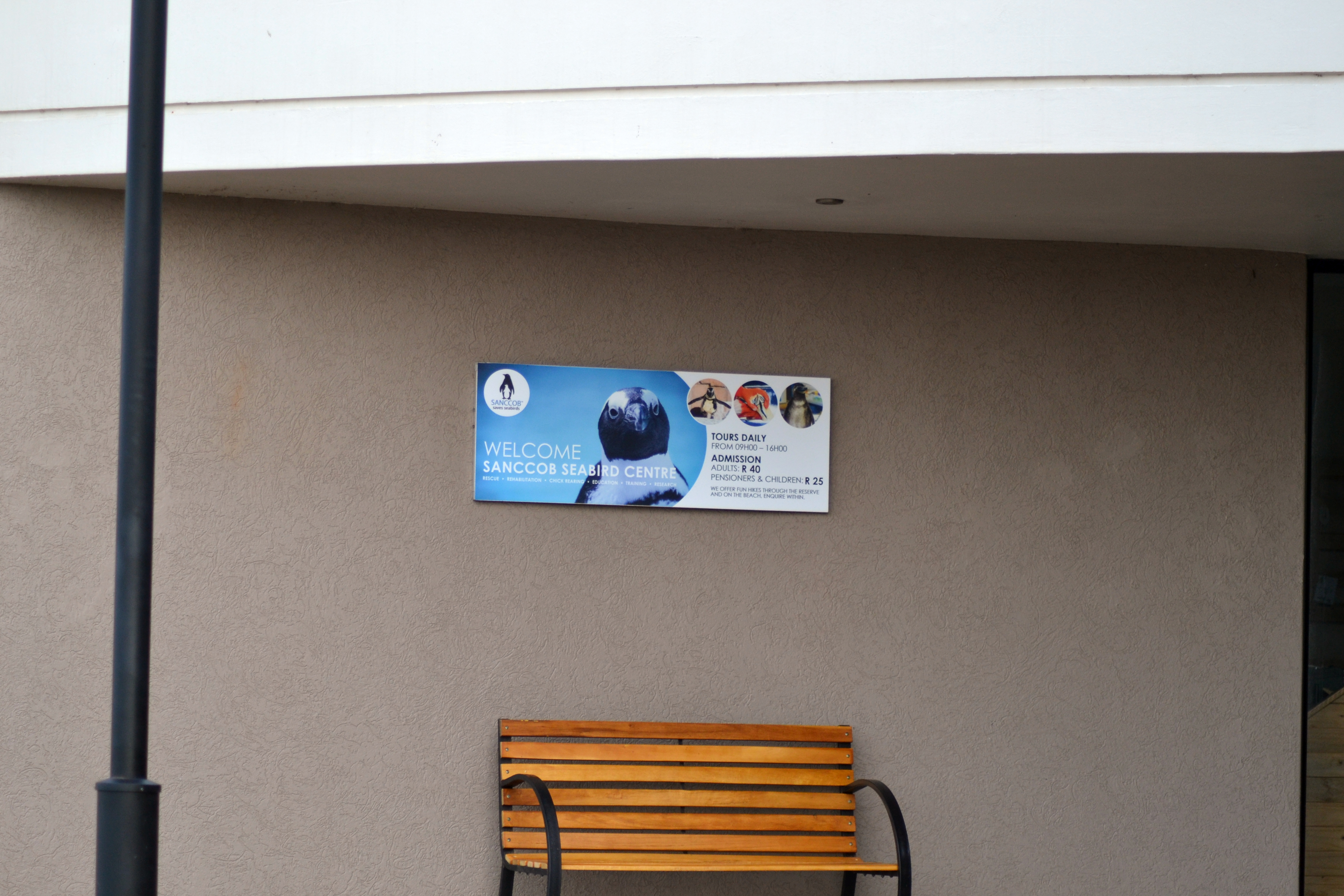 Southern African Foundation for the Conservation of Coastal Birds (SANCCOP), Cape Recife Nature Reserve in Port Elizabeth